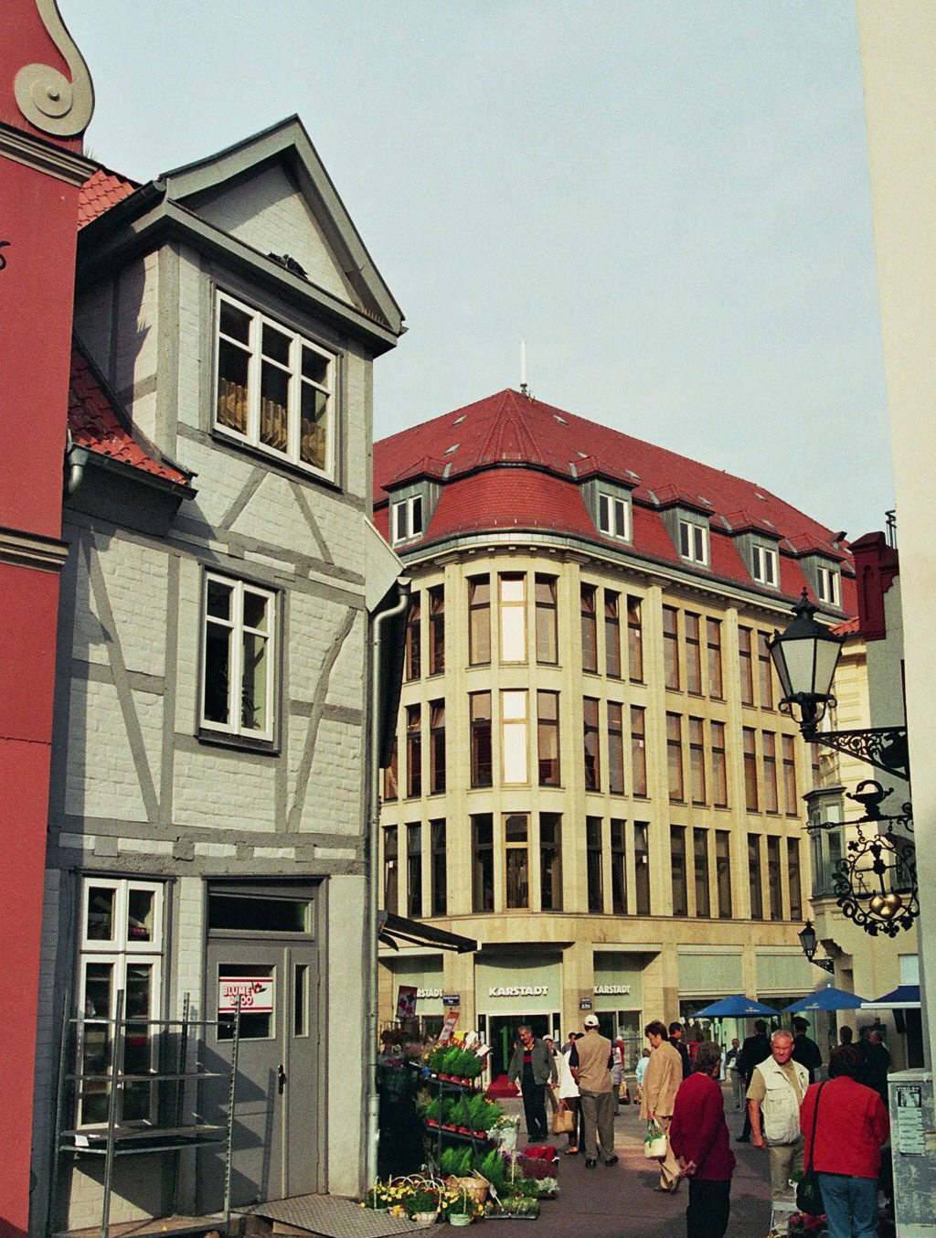 This image shows the head office of the former Karstadt Warenhaus AG (now KarstadtQuelle) in Wismar, Mecklenburg-Vorpommern, Germany. On 14 May 1881, Rudolph Karstadt founded his first store (Cloth, Manufacture, and Mass Production Business Karstadt) here. The grey building (timber framing) Am Markt 3 on the left is listed.